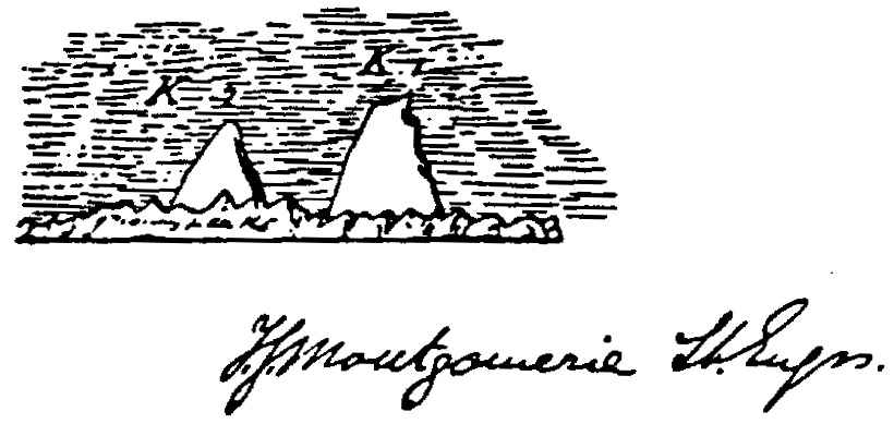 Sketch by Thomas Montgomerie made during his exploration of the Karakoram. He noted two prominent peaks, labelling them K1 and K2. K1 is now known as Masherbrum, but K2 was never formally named; Montgomerie had inadvertently named the world's second highest mountain.